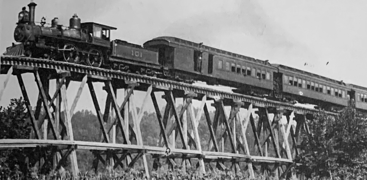 A passenger steam train traveling over the Holston River by trestle from Bean Station into Morristown